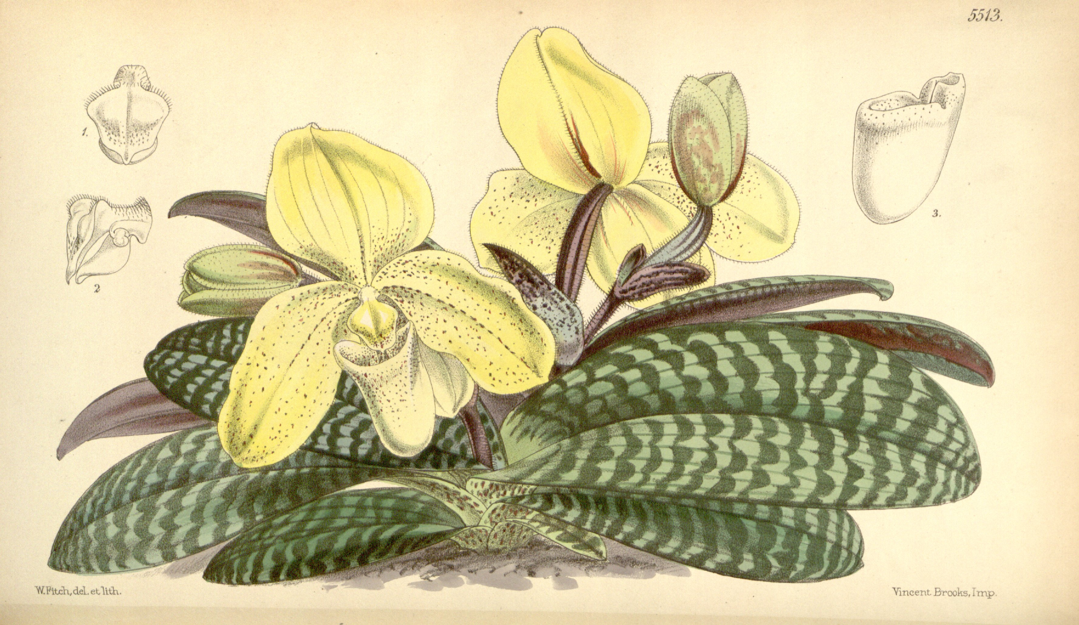 Illustration of Paphiopedilum concolor (as syn. Cypripedium concolor )